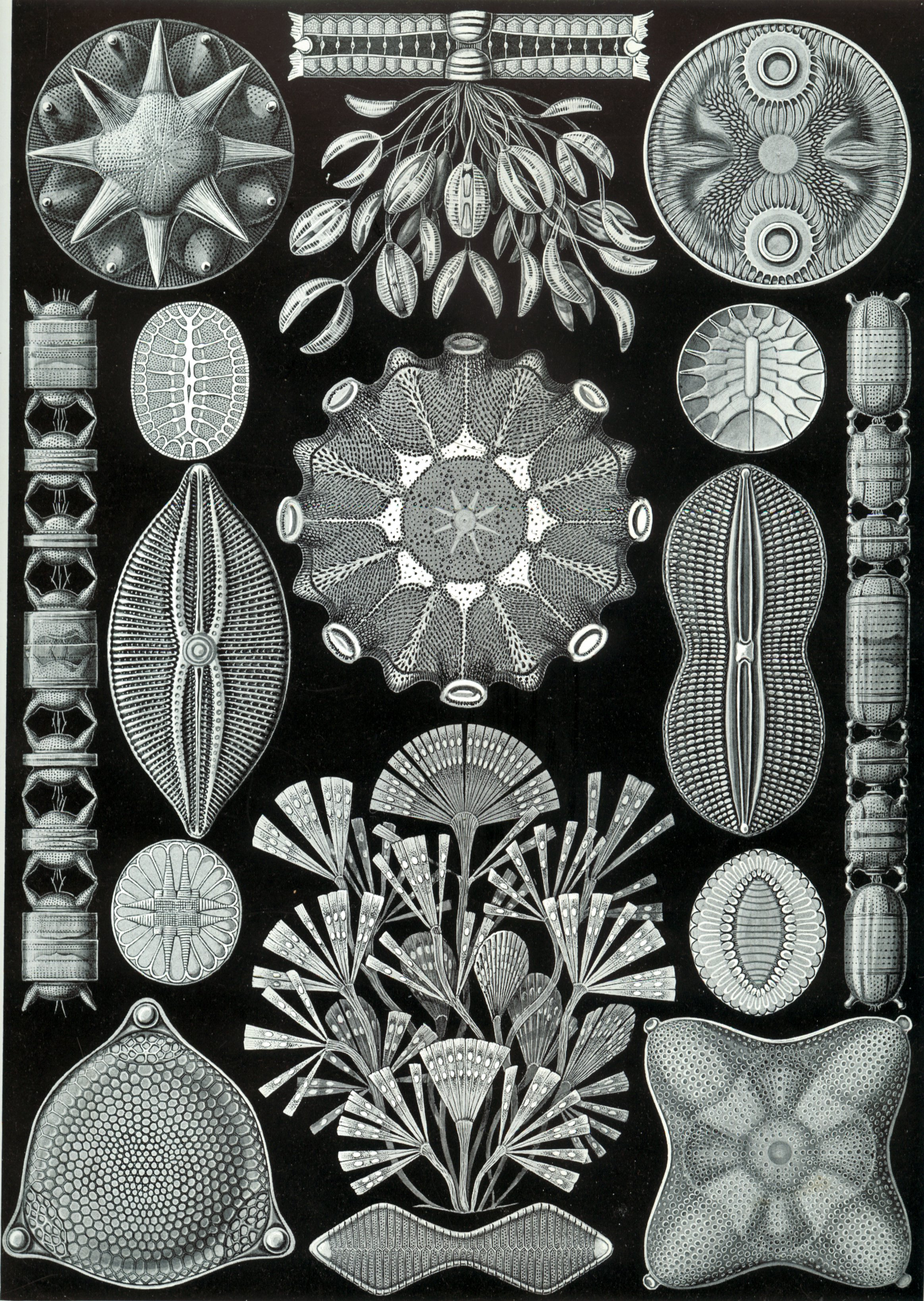 See here for index to numbers. Pyrgodiscus armatus (Kitton) = Pyrgodiscus armatus F.Kitton, top view Rutilaria monile (Grove) = Pseudorutilaria monile Grove & Sturt ex De Toni, side view Auliscus elegans (Bailey) = Auliscus elegans R.K.Greville?, top view Cocconema cistula (Ehrenberg) = Cymbella cistula (Hemprich & Ehrenberg) O.Kirchner, colony Campyloneis grevillei (W.Smith) = Campyloneis grevillei (W.Smith) Grunow & Eulenstein, top view Asteromphalus imbricatus (Wallich) = Asteromphalus imbricatus G.C.Wallich, top view Odontella aurita (Lyngbye) = Odontella aurita (Lyngbye) C.Agardh, colony Grovea pedalis (Grove) = Biddulphia pedalis E.Grove & G.Sturt, top view Biddulphia pulchella (Gray) = Biddulphia biddulphiana (J.E.Smith) Boyer, colony Navicula bullata (Norman) = Navicula bullata Norman, top view Navicula didyma (Gregory) = Diploneis didyma (Ehrenberg) Cleve, top view Campylodiscus bicruciatus (Gregory) = Campylodiscus simulans Gregory Surirella pulcherrima (Meara) = Surirella pulcherrima E.O'Meara?, top view Licmophora flabellata (Carm.) = Licmophora flabellata (Greville) C.Agardh, colony Triceratium robertsianum (Greville) = Triceratium robertsianum Greville, top view Gephyria constricta (Greville) = Gephyria sp., side view Amphithetras elegans (Greville) = Biddulphia elegans (R.K.Greville) C.S.Boyer?, top view